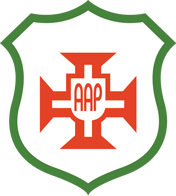 Logo of Portuguesa Santista